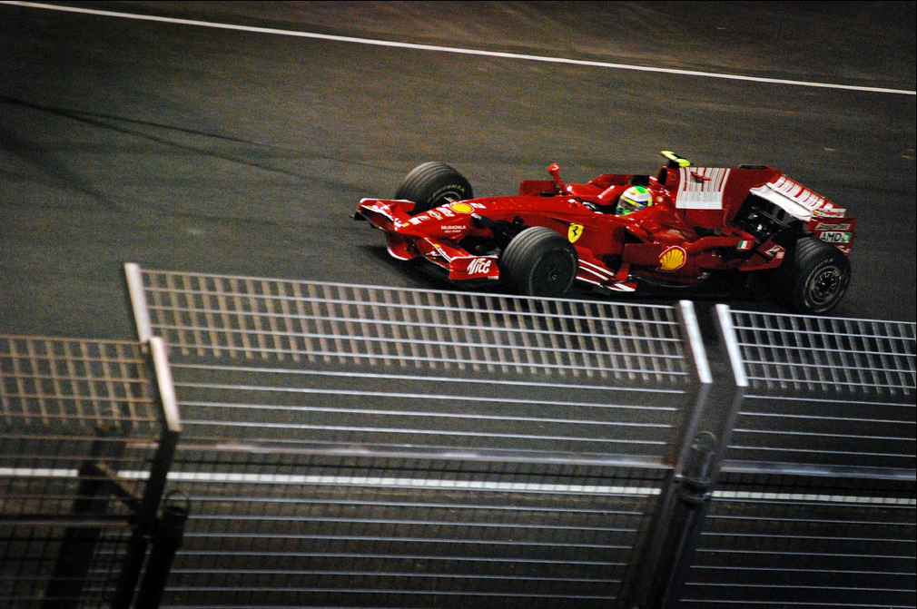 Felipe Massa at 2008 Singpaore Grand Prix